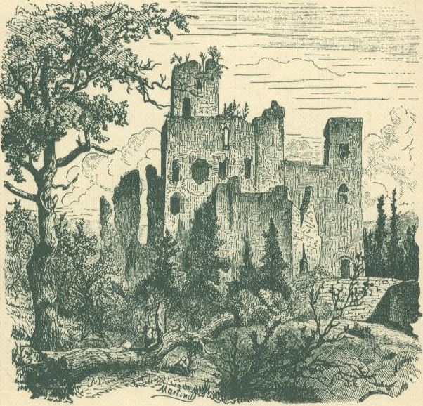 Drawing of the Castle of Brandenbourg, Luxembourg, by Martinus-Antonius Kuytenbrower (1821-1897)